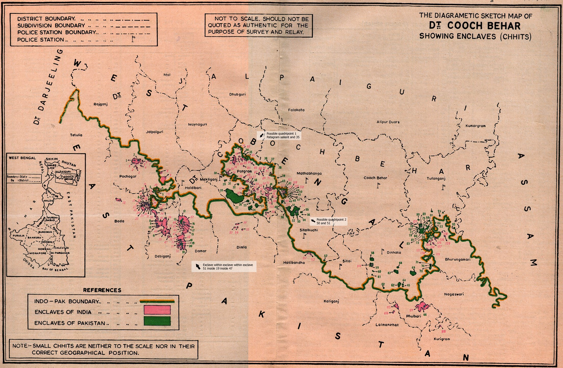 Coochbehar map